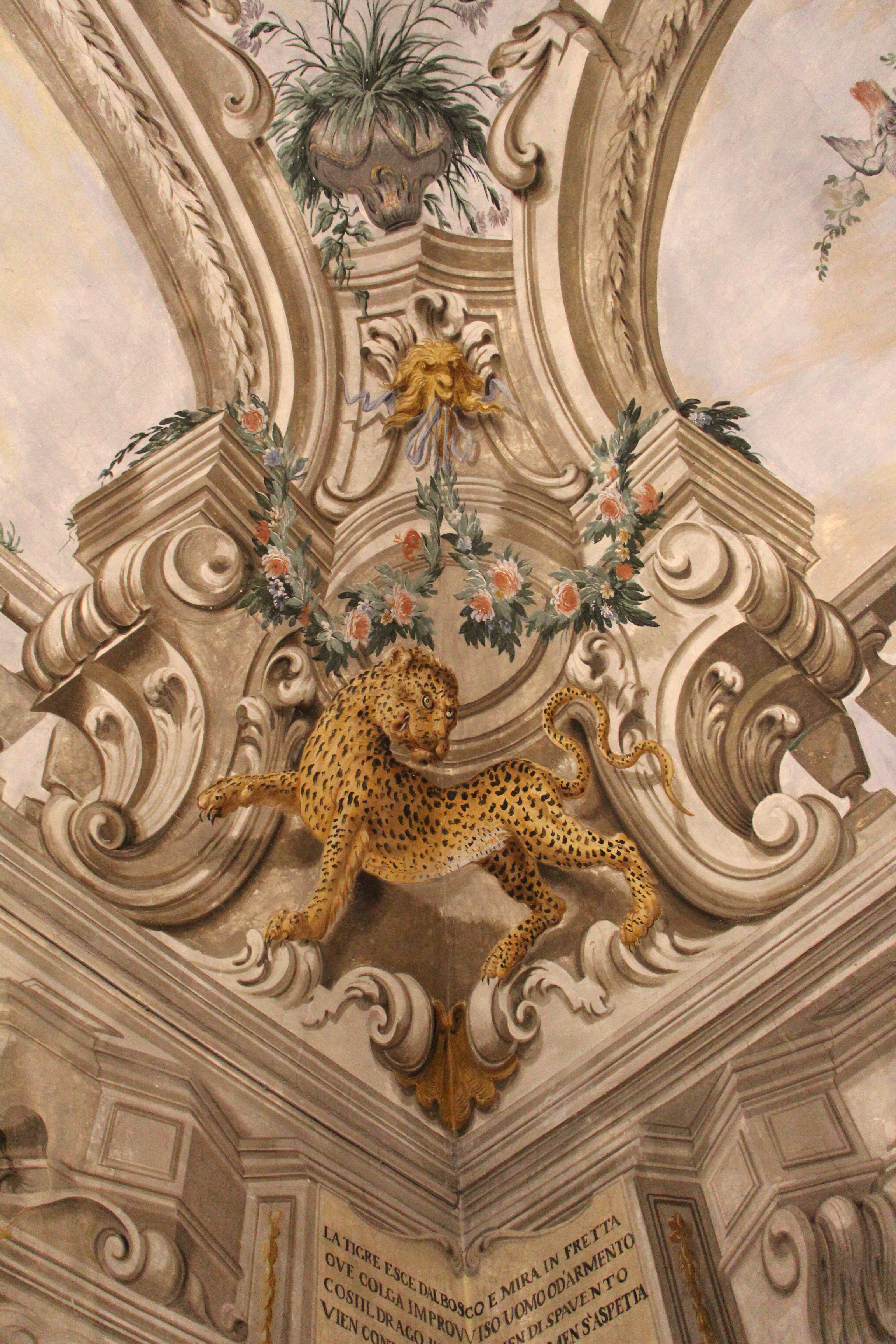 Villa La Quiete - Anna Maria Luisa de' Medici Apartments